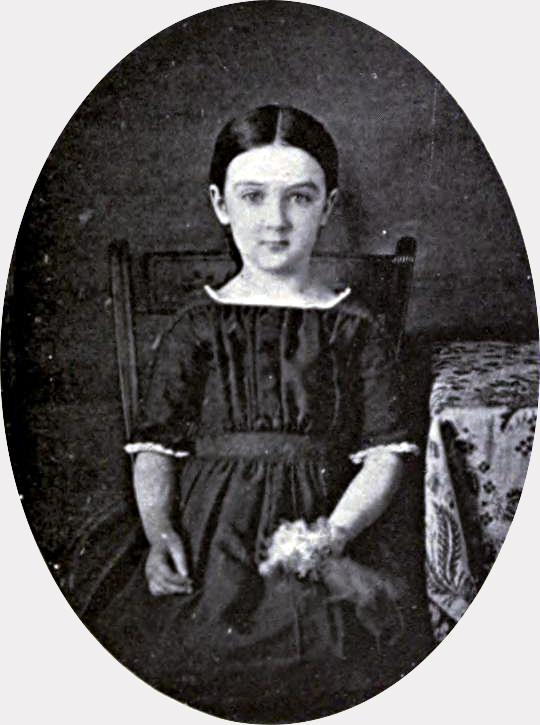 Ellen Swallow Richards daguerreotype taken about 1848.